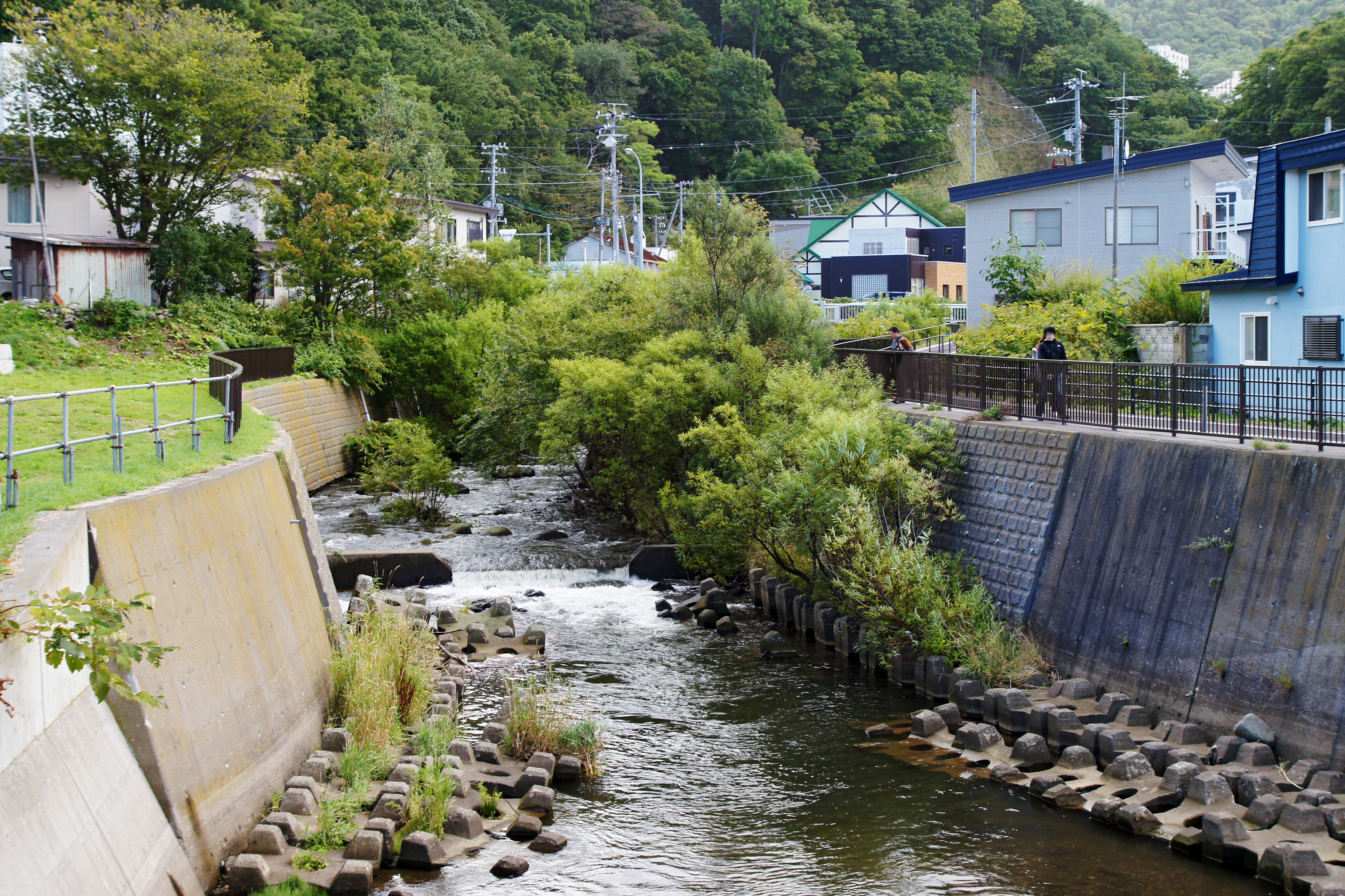 Pereke_River at Shari, Hokkaido prefecture, Japan